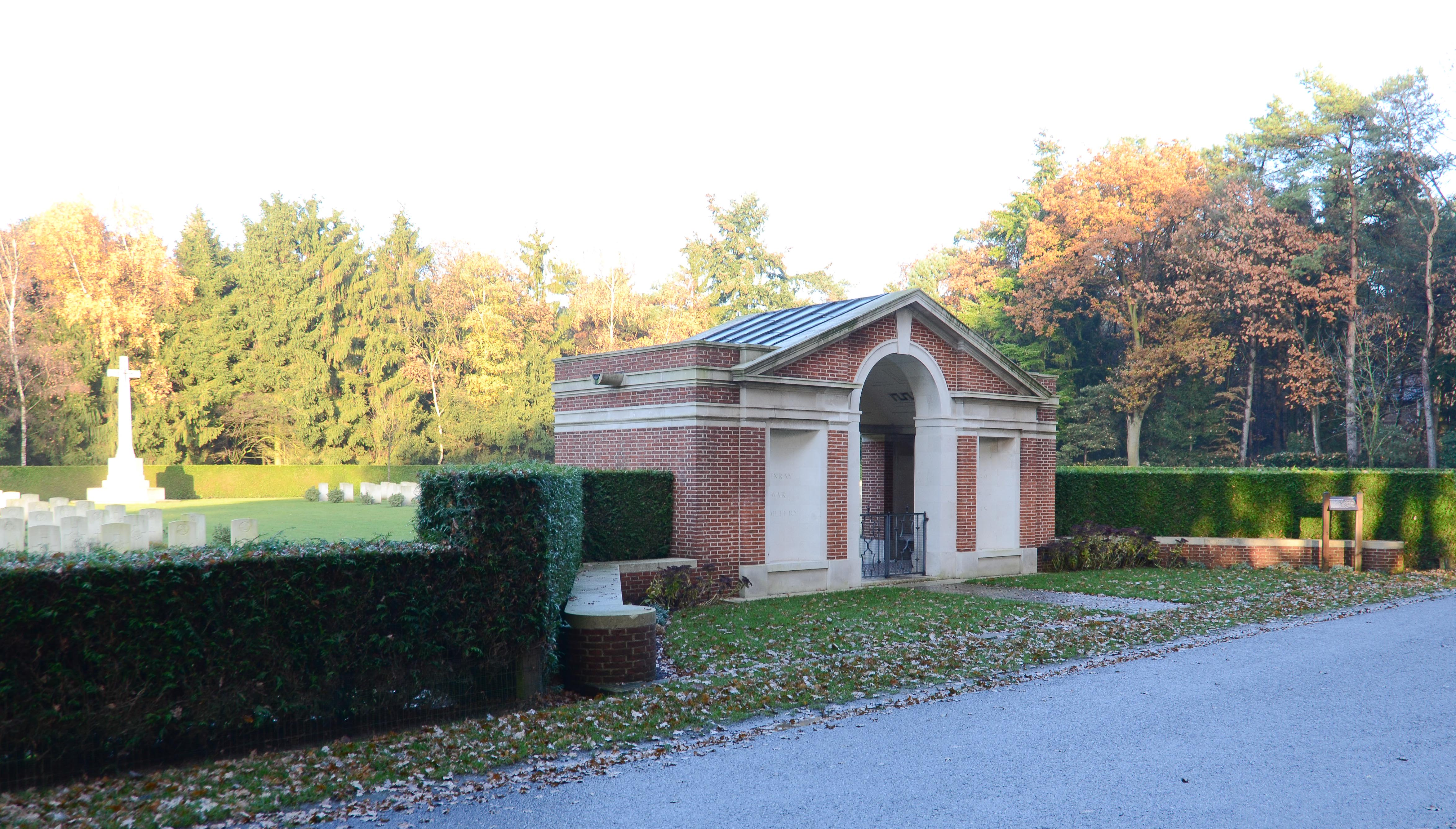 Venray War Cemetery (CWGC)